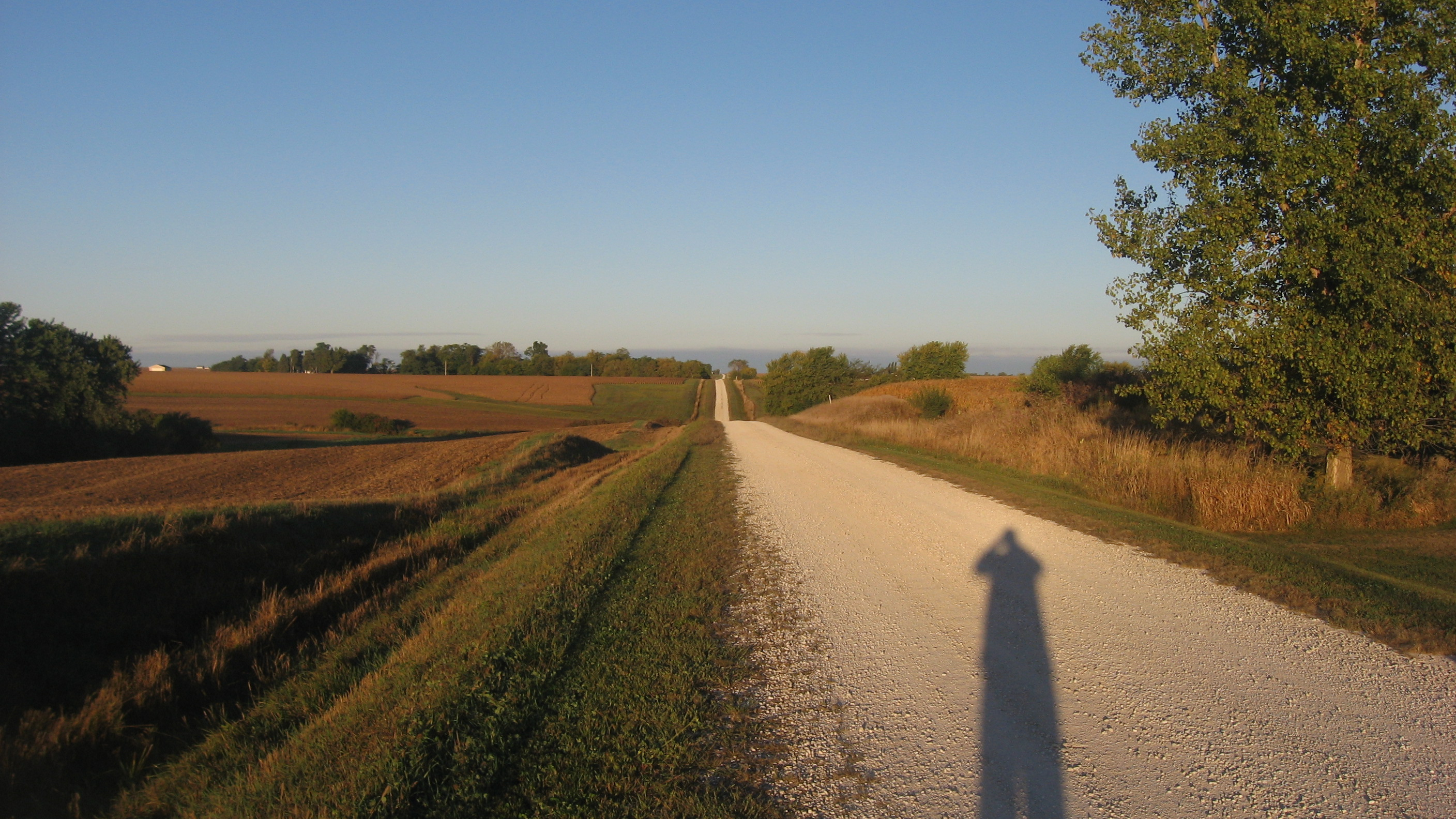 Looking west along 260th Street near the 160th Avenue intersection in Yellow Springs Township, Des Moines County, Iowa, United States, between Mediapolis and Morning Sun.